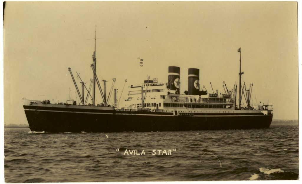 The Avila Star ship